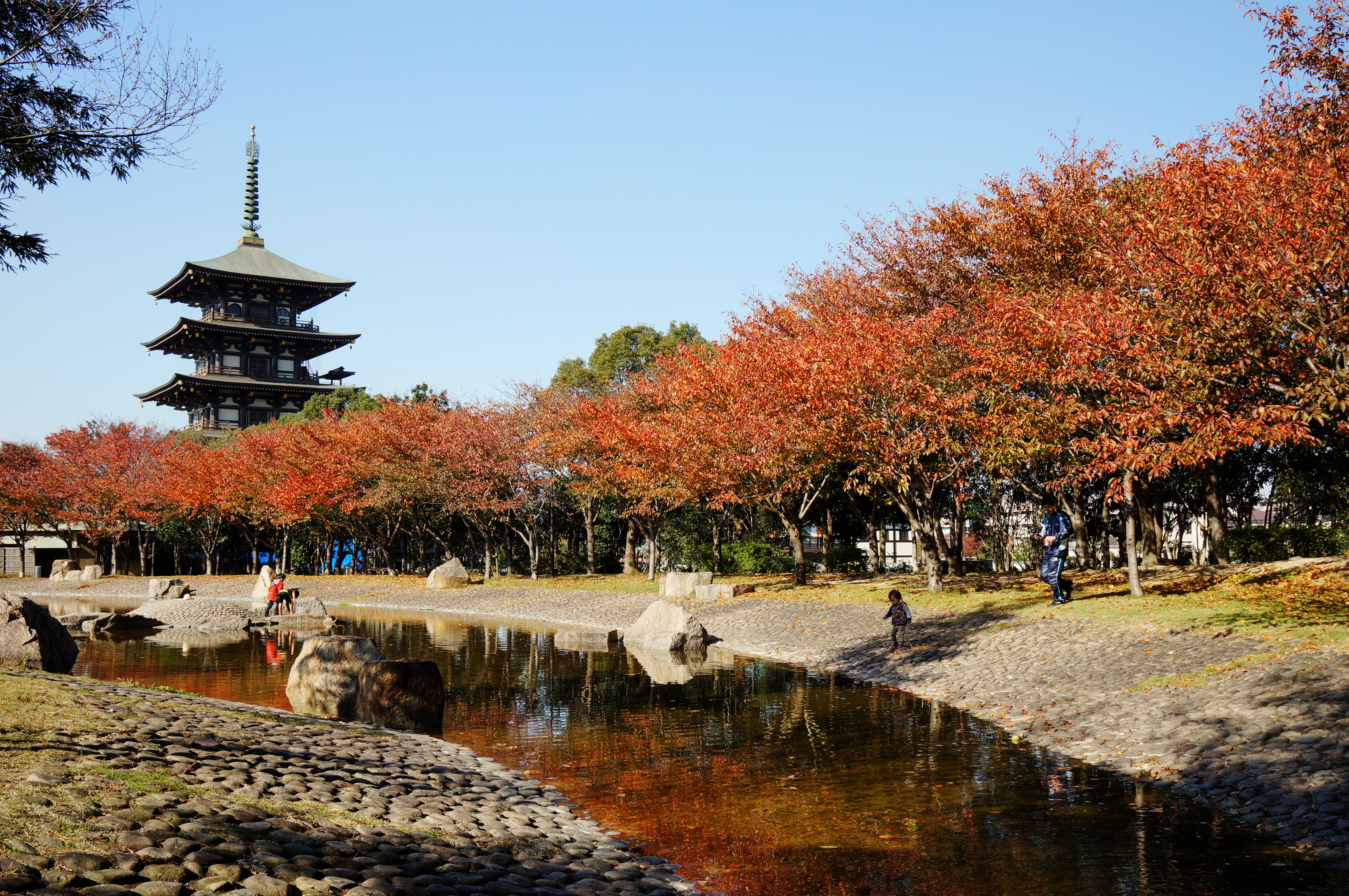 At Nozoe-kita_Park in Harima, Hyogo prefecture, Japan.